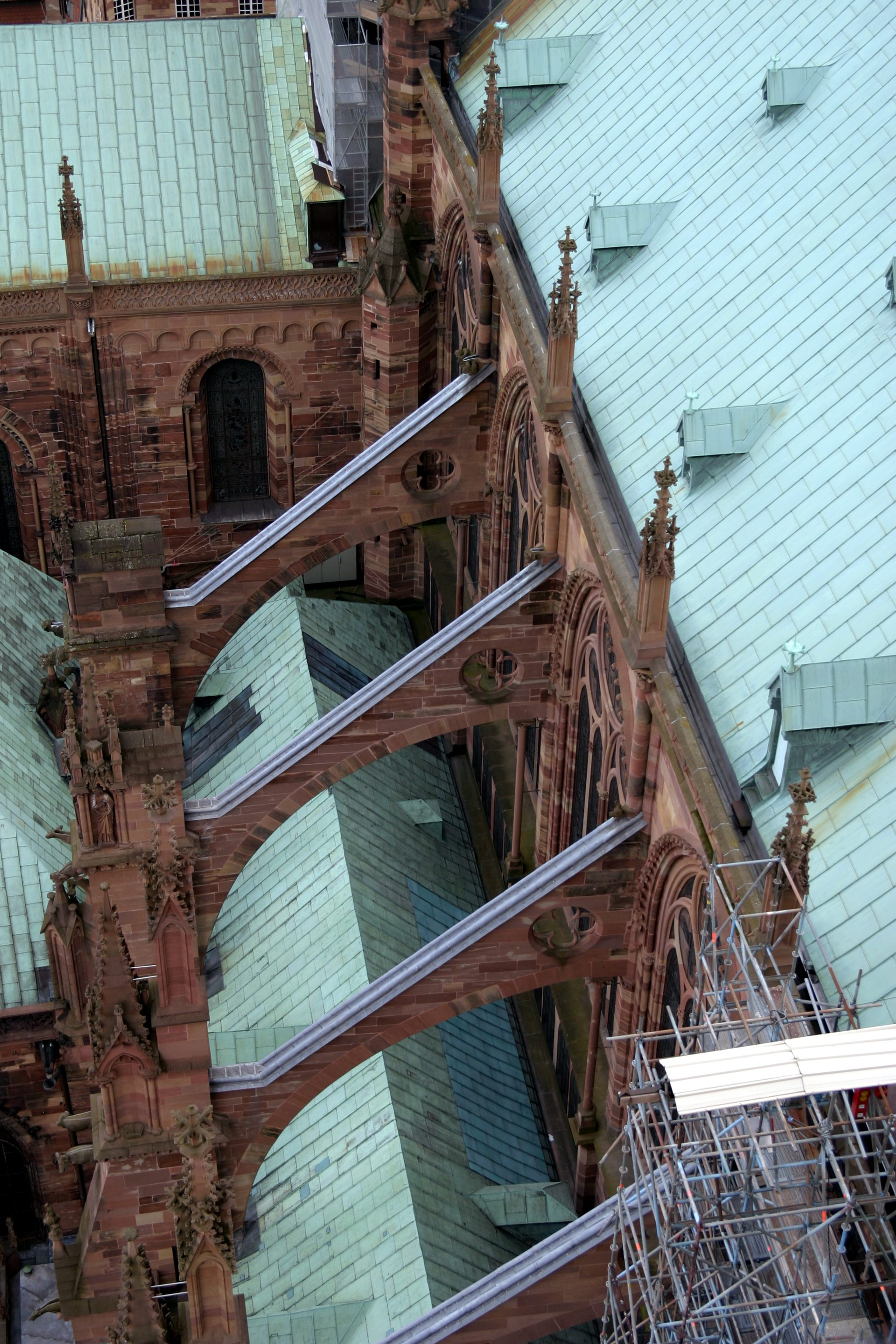 This image was taken at Strasbourg Cathedral, Strasbourg.